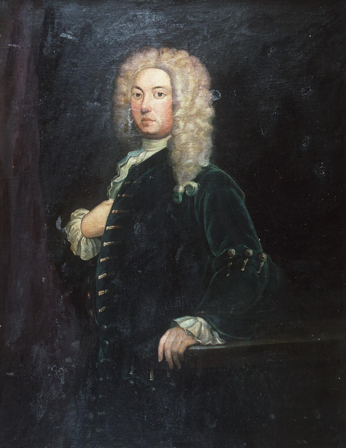 A painting from the Framed Works of Art collection at the National Library of wales.